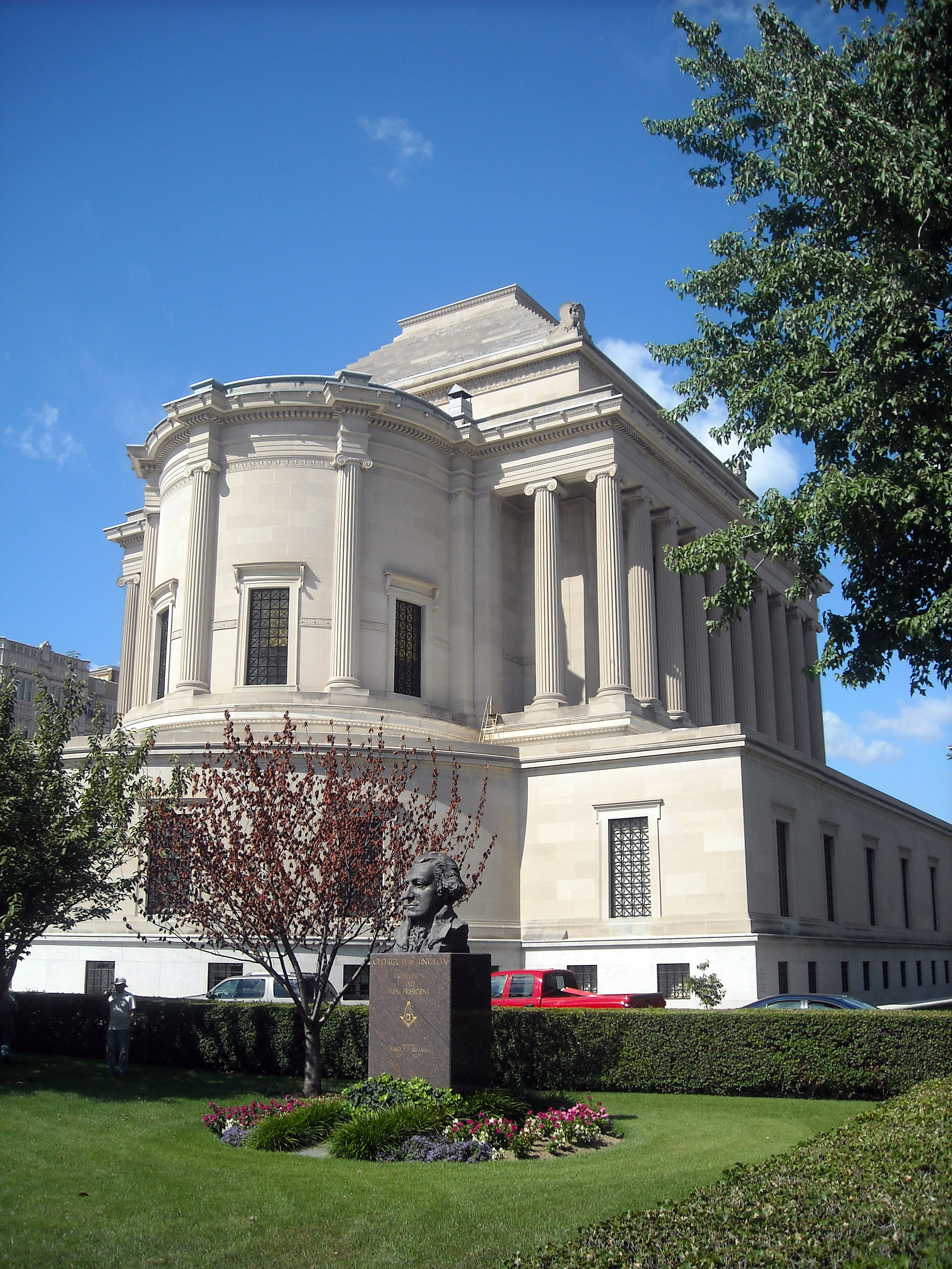 Rear view of the House of the Temple at 1733 Sixteenth Street, NW in the Dupont Circle neighborhood of Washington, D.C.